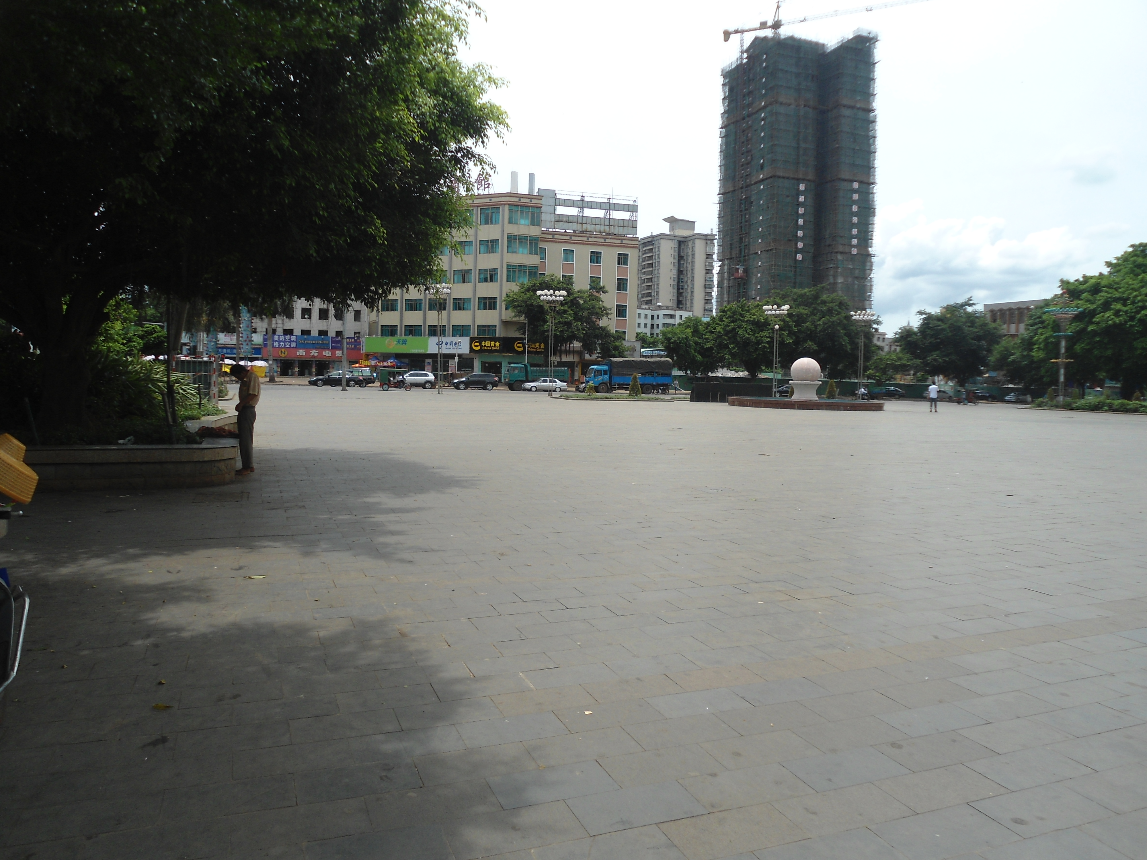 Main square, downtown Xuwen town, Guangdong, China.